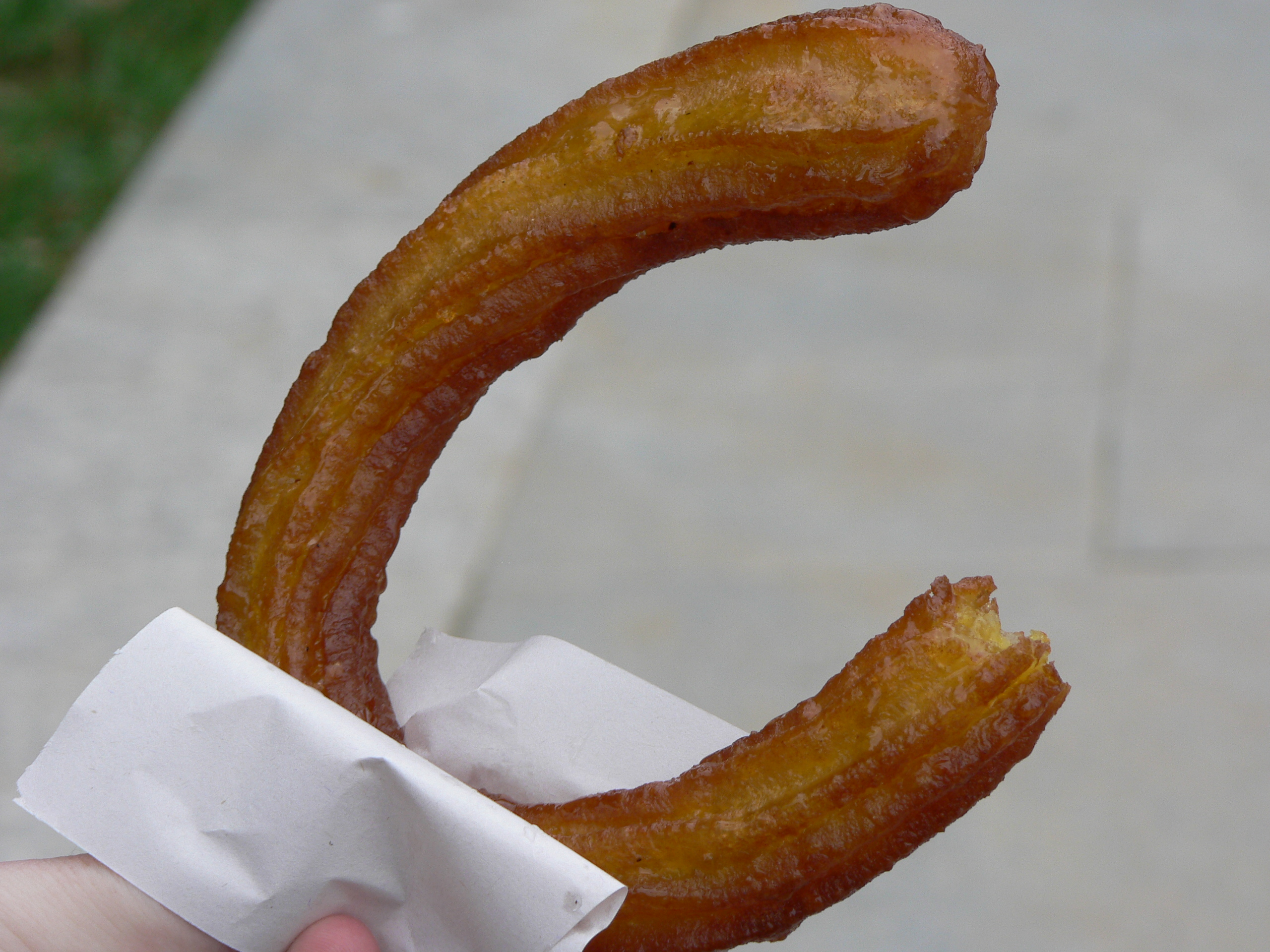 Turkish sweet food called "halka".